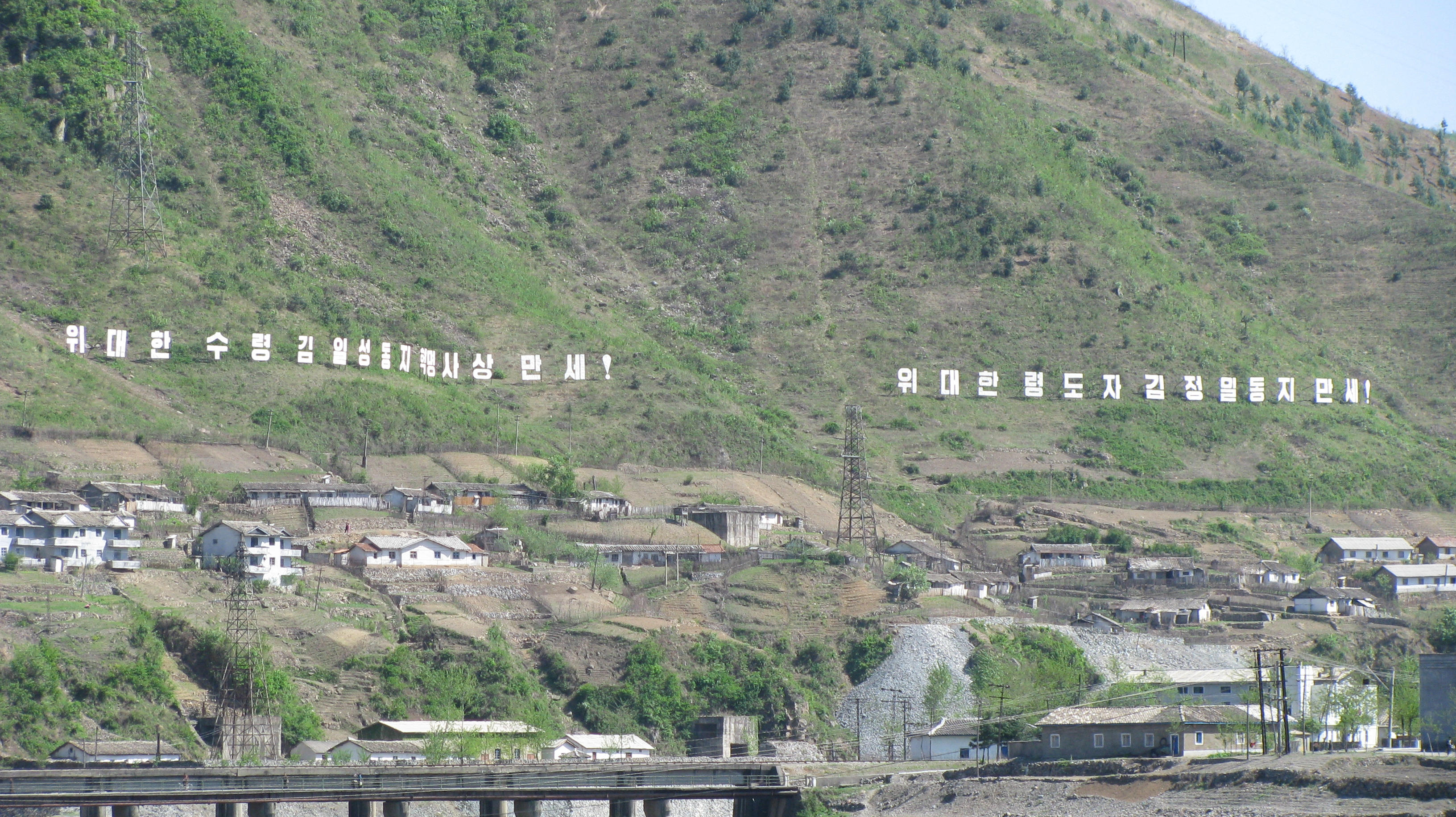 Supung-dong seen from China